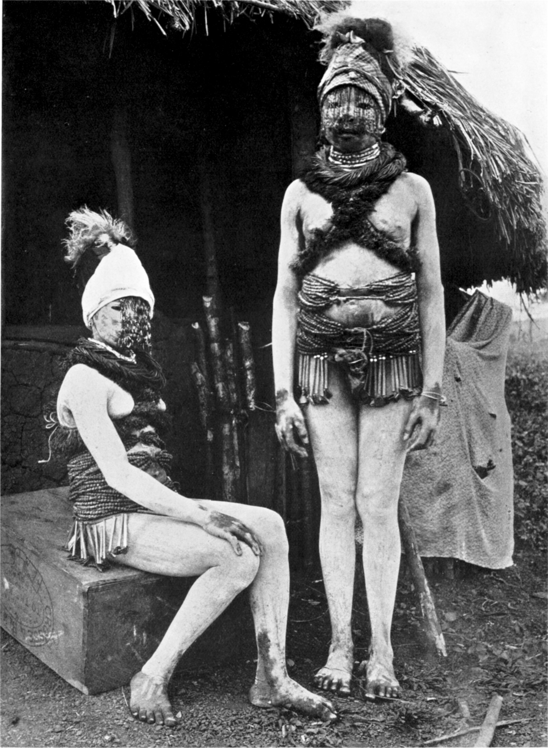 Bundu girls whitened.Dancing forms no inconsiderable part of the Bundu girls' training in their retreat, and they are frequently brought out to perform before their families and friends. The principal adornment is the dressing of the girls' bodies and faces with strange markings produced by the smearing on by the fingers of a substance called "wojeh," composed of white clay and animal fat.